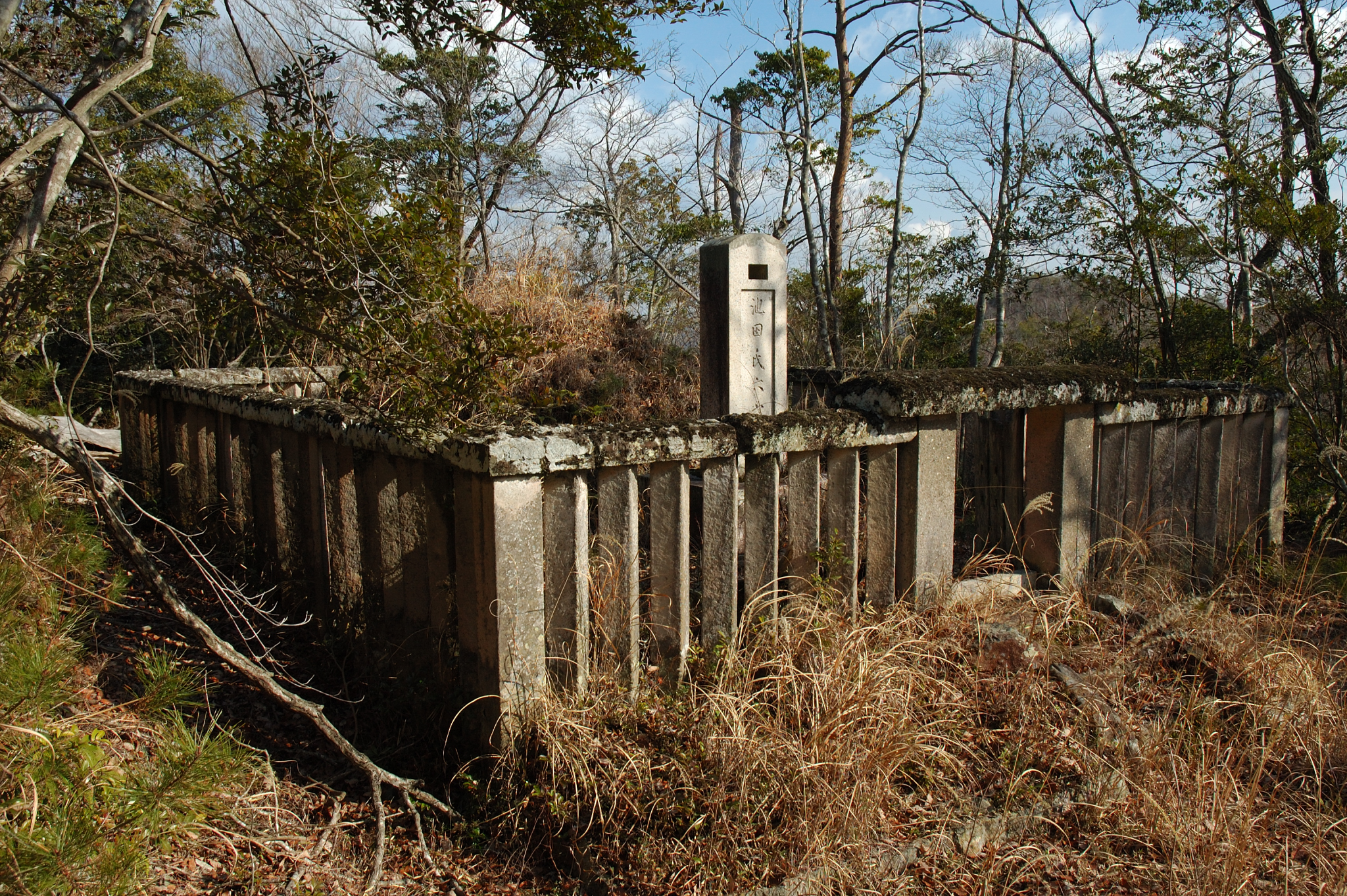 grave of Ikeda Rokuhime in Nana-no-oyama